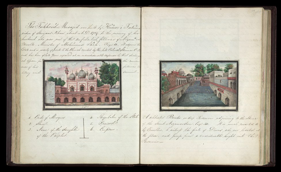 Fakhr ul Masjid (left) and baoli at the shrine of Nizamuddin (right ) from Sir Thomas Metcalfe's "Reminiscences of Imperial Delhi"